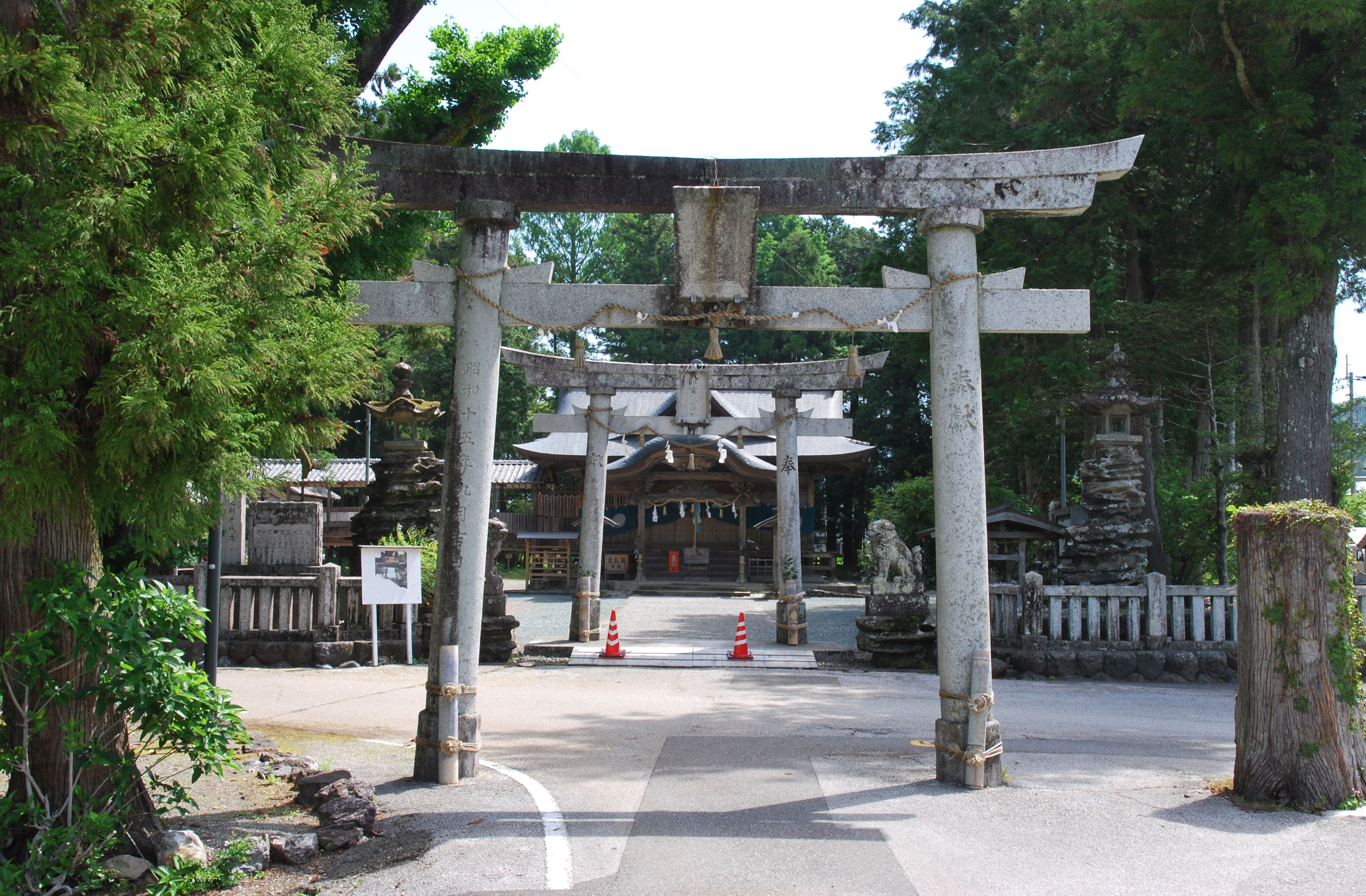 Ichi-no-torii, Ōkawakami Birafu Jinja